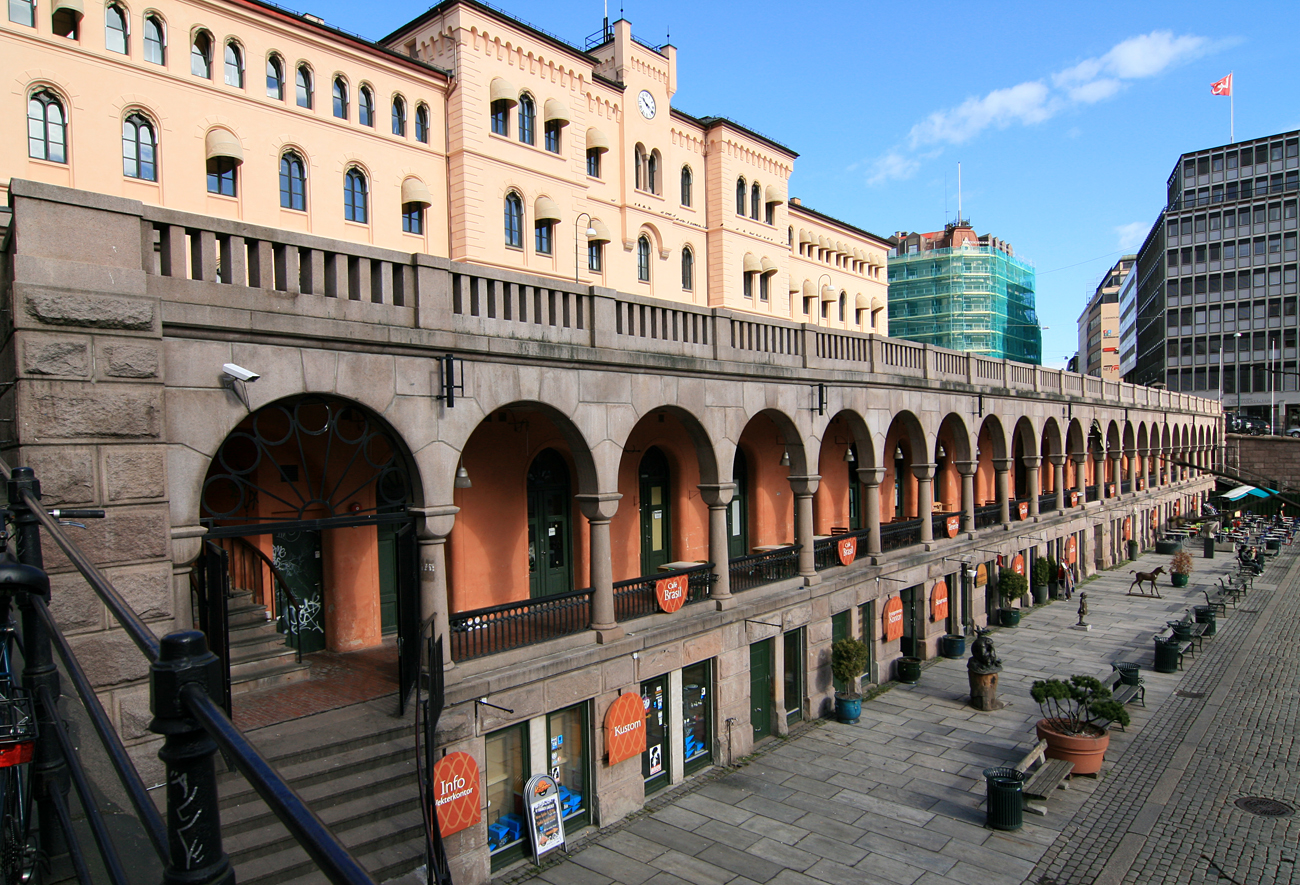 Nytorvets basar, Youngstorget, Oslo. Built 1877. Architect: Jacob Nordan.